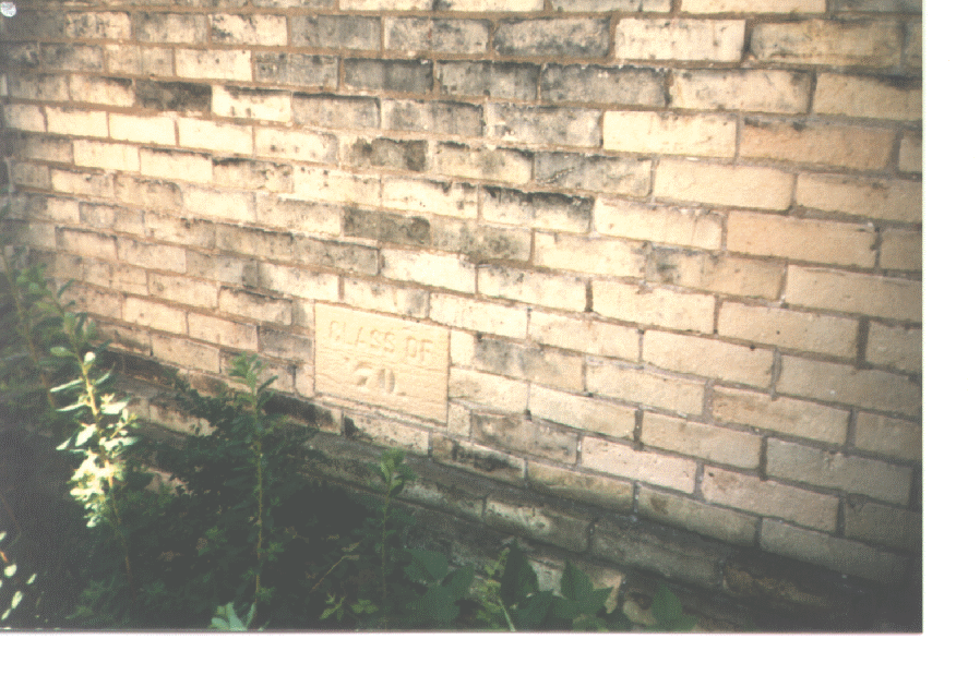 In the chapel of Racine College, Racine, Wisconsin, the graduating classes used to add a stone commemorating their class to the external chapel walls. This stone says "Class of '70" which refers to the graduating class of 1870.